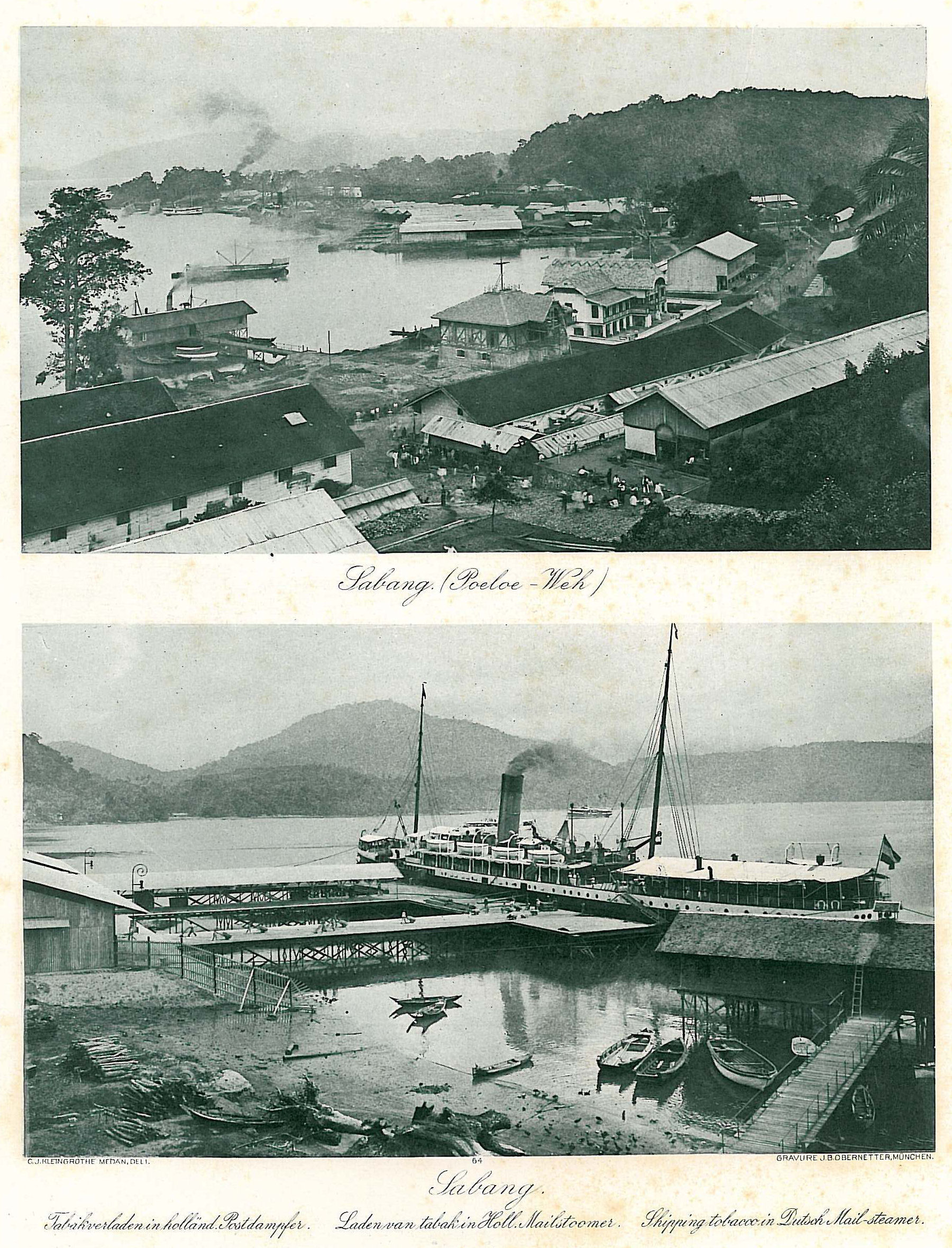 Historical postcard of Indonesia